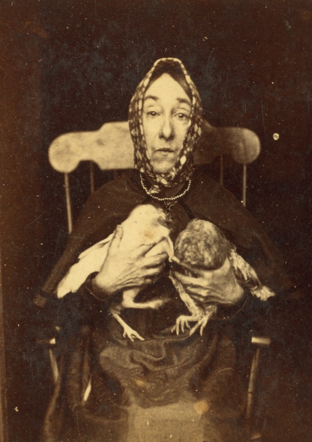 Portrait of Nancy Luce, island eccentric, and her bantie hens. Photo by S F Adams